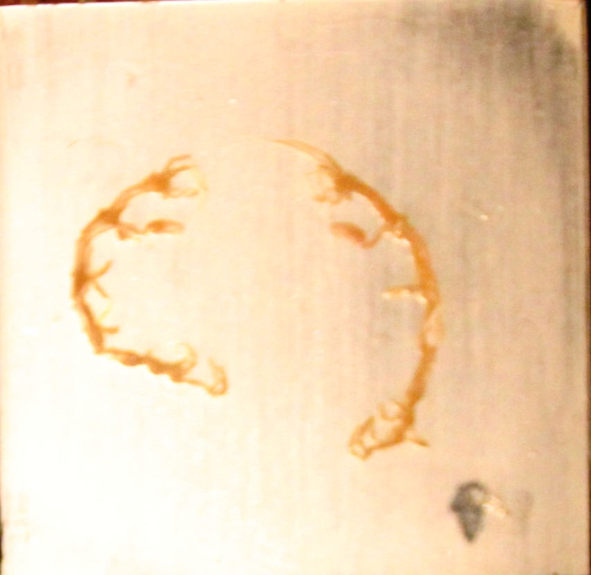 Crustanceans exhibited at the Svalbard Museum in Longyearbyen (Norway). These are a Arctic species of marine amphipods.